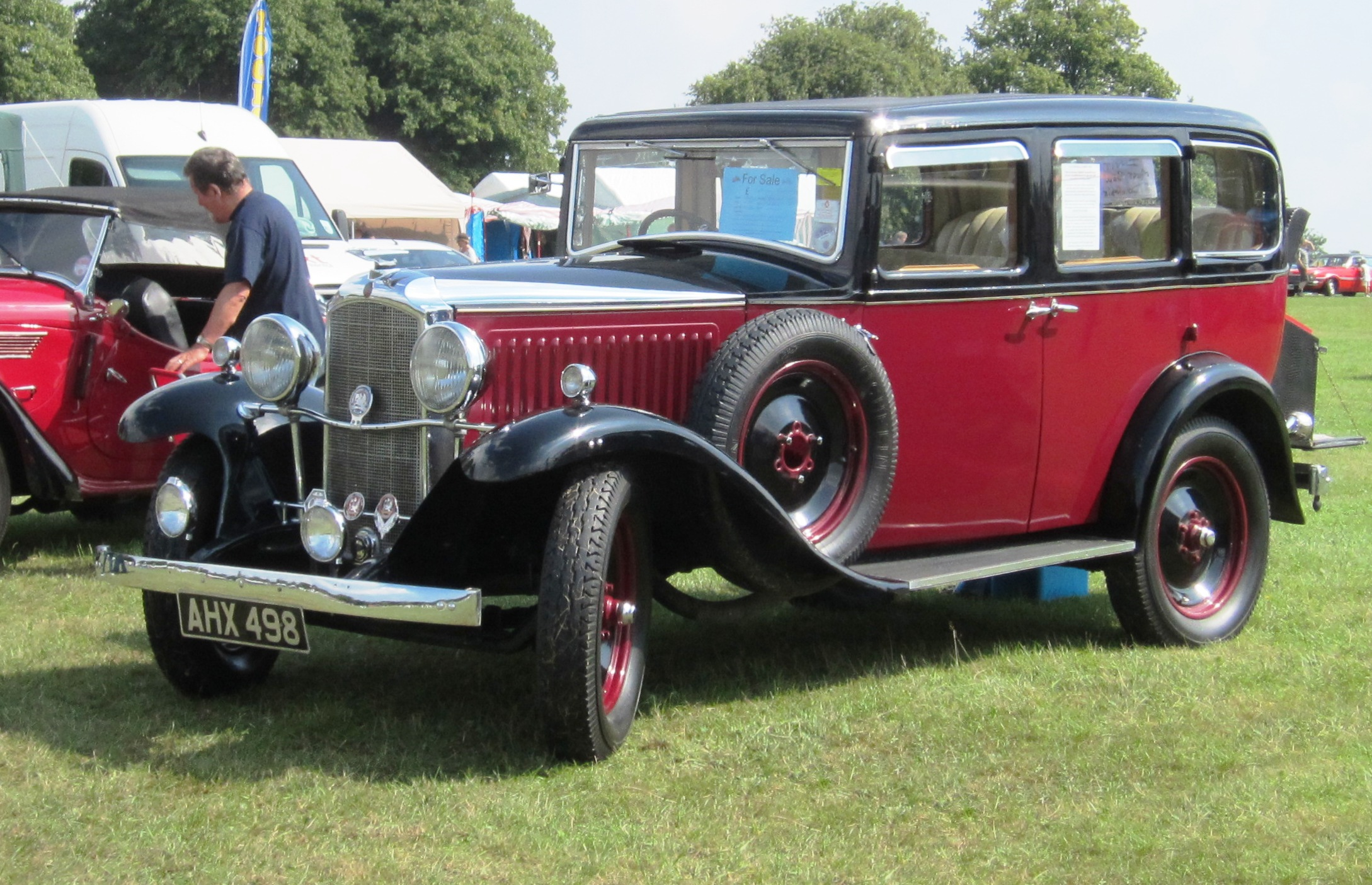 Vauxhall Cadet: Grosvenor bodied 2.2 litre (1933). The car in the background is a Ford Eifel.